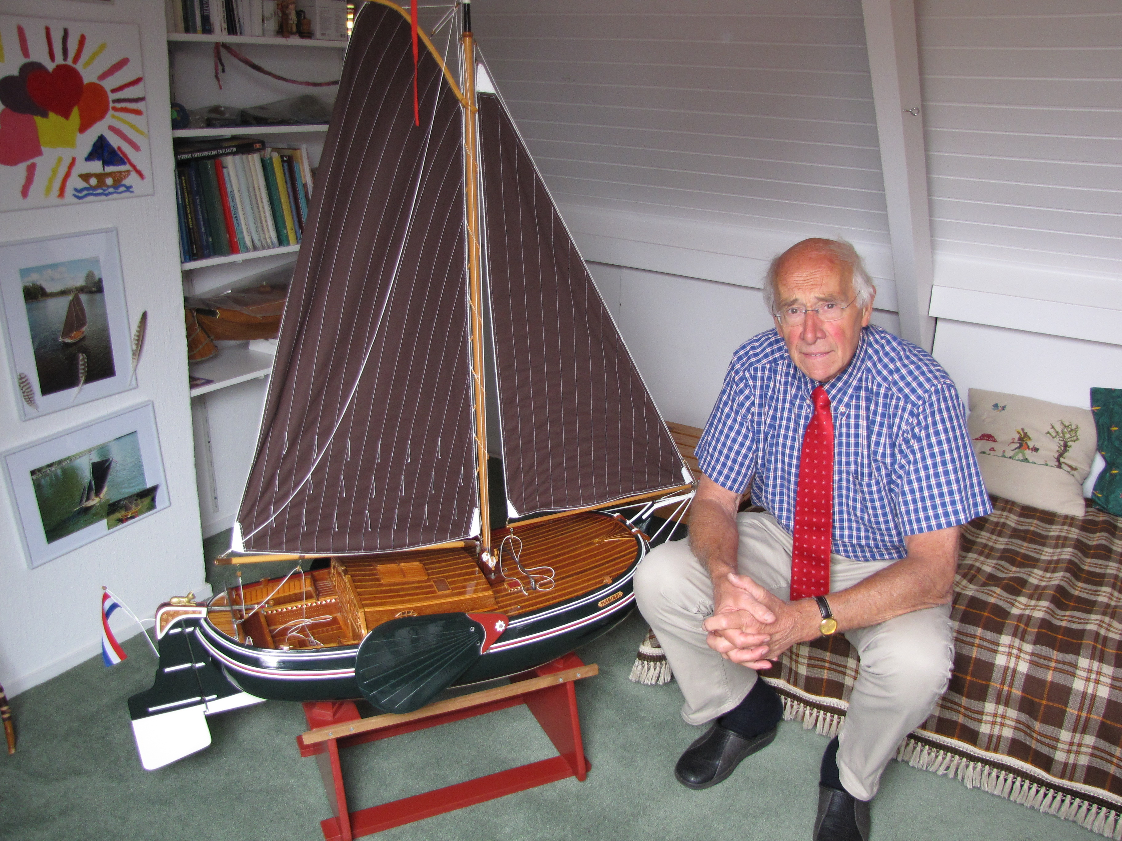 Cees Koch at home in 2010, with one of his selfmade flatboats.